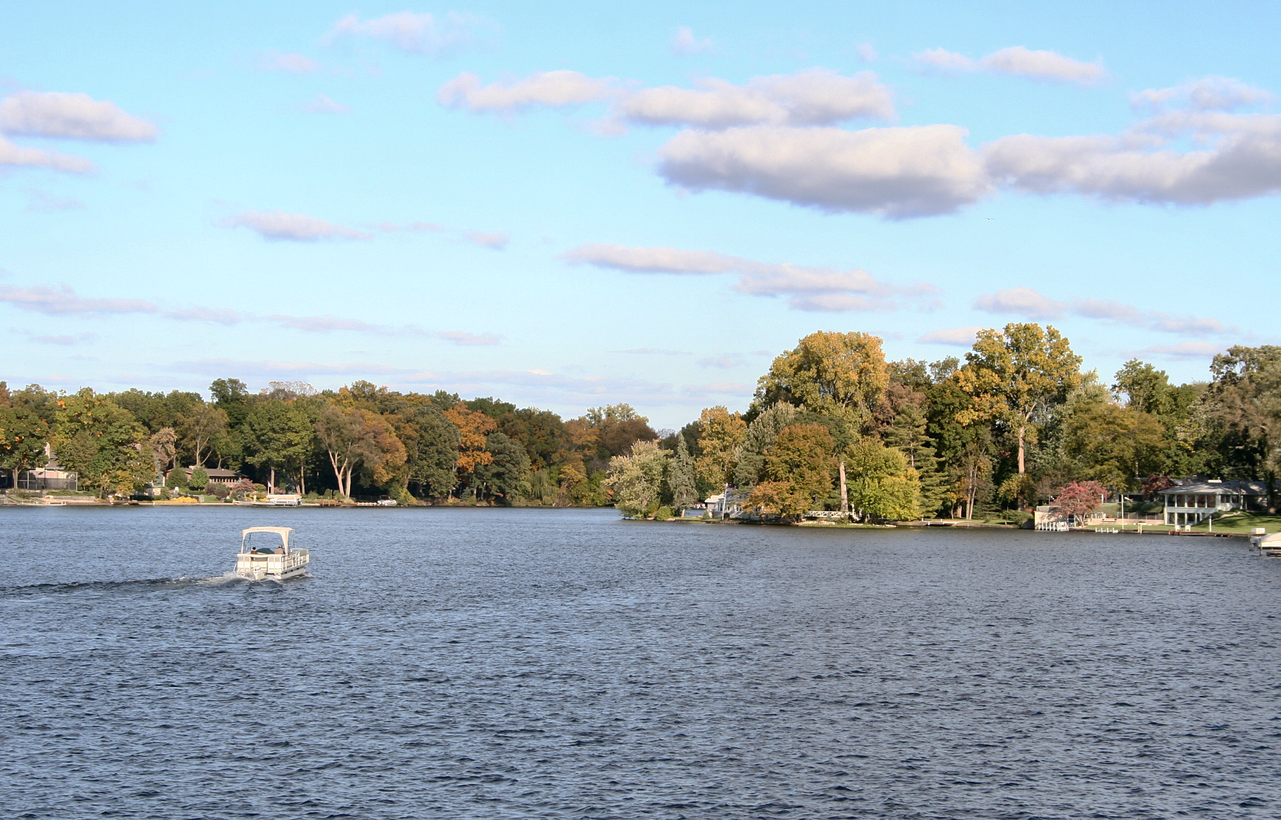 St. Joe River widens as it flows through Elkhart, Indiana. Photo shot by Derek Jensen (Tysto), 2005-October-16